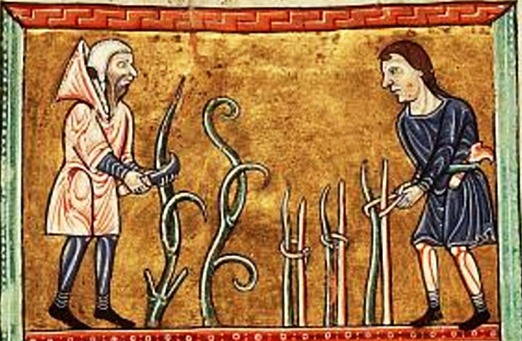 Detail of March, training grapevines (pruning and staking), Psalter